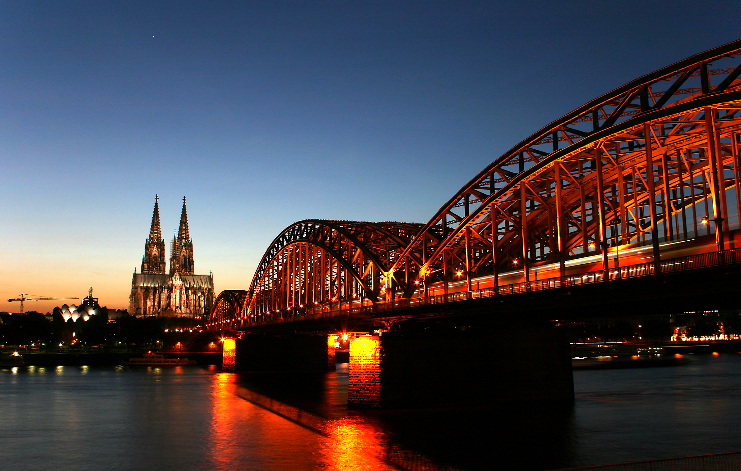 the Rhine of Cologne with Hohenzollernbrücke, Cologne Cathedral and Museum Ludwig